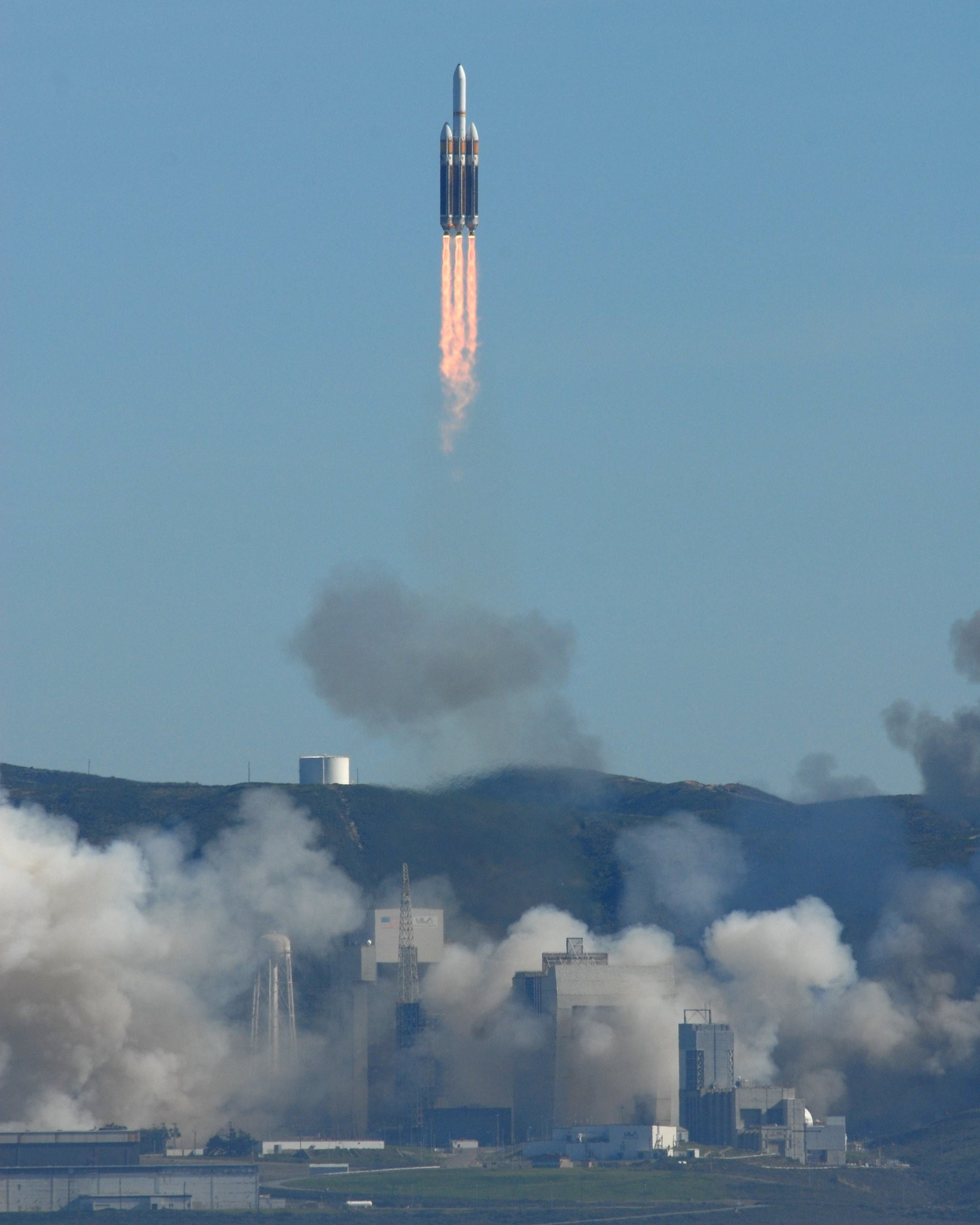 Launch of the first Delta IV Heavy from Vandenberg Air Force Base, carrying NROL-49, a KH-11 electro-optical imaging satellite.